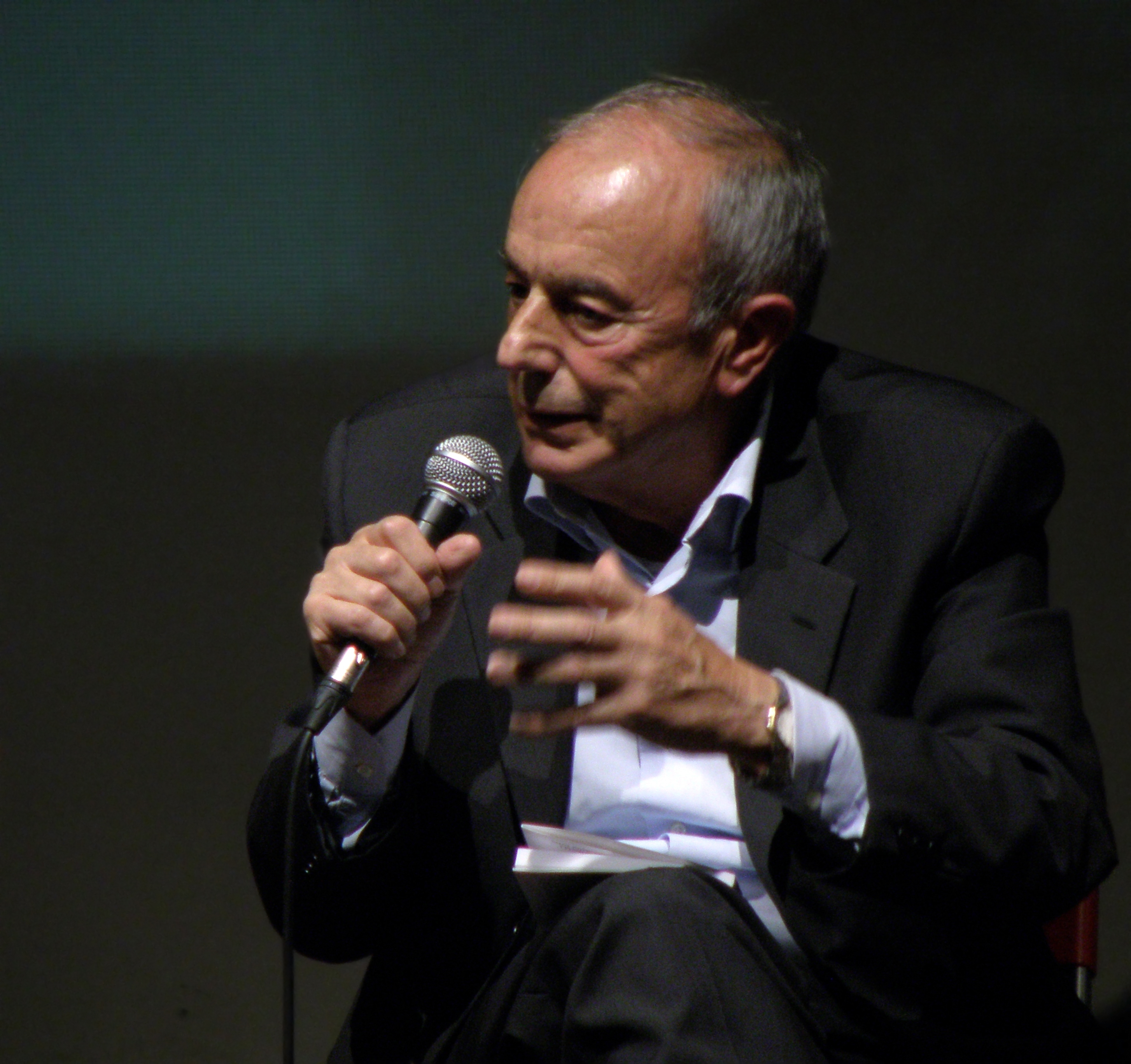 Beppino Englaro, father of Eluana Englaro, notable case of euthanasia in Italy. Photo taken after the play "Sospesi tra cielo e terra", in Milano.